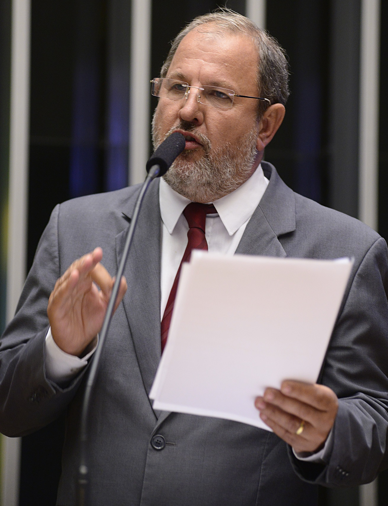 José Luiz Stédile em fevereiro de 2016.